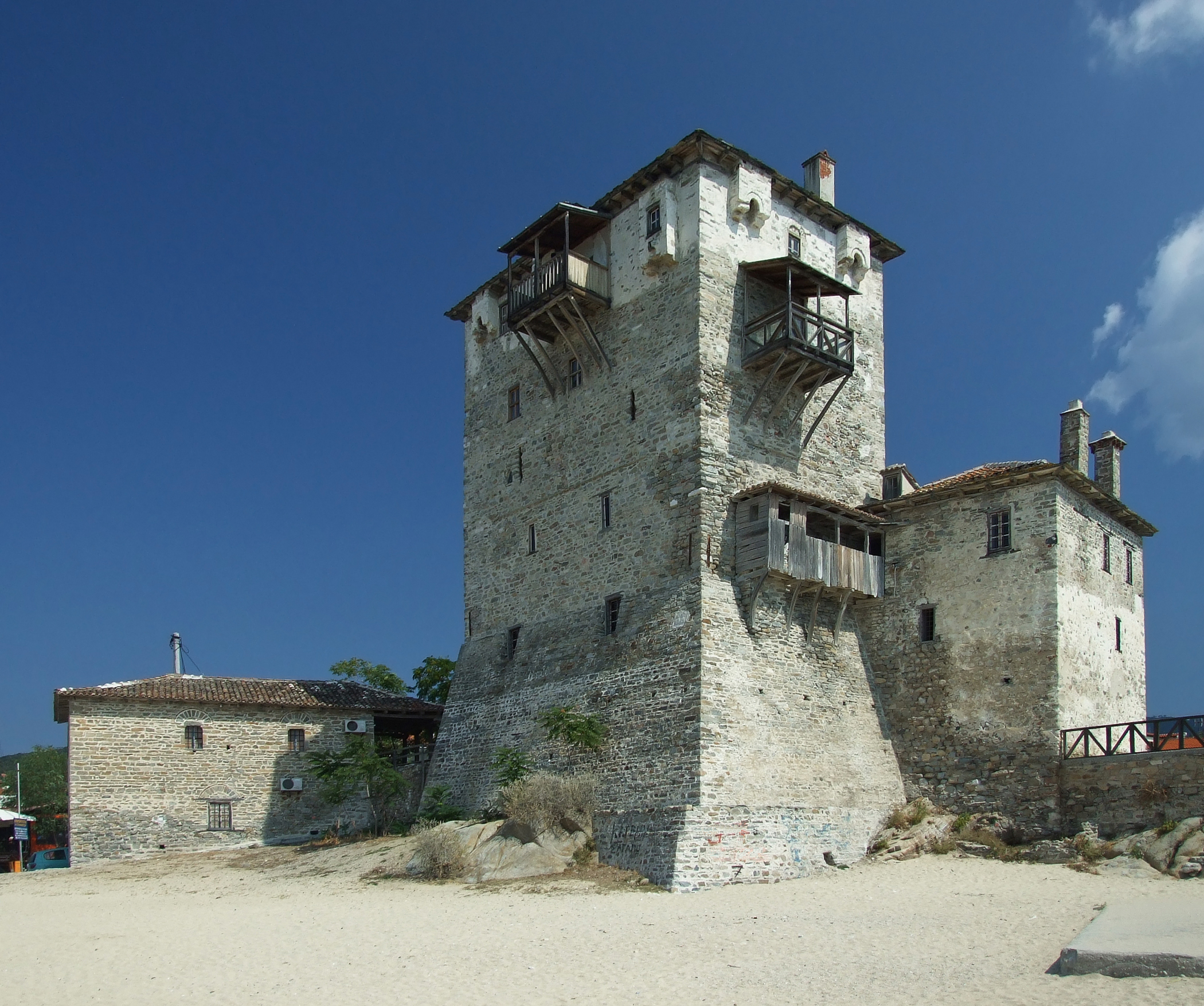 The Old Byzantine Tower (now historical museum) in Ouranopolis, Athos Peninsula, Greece.